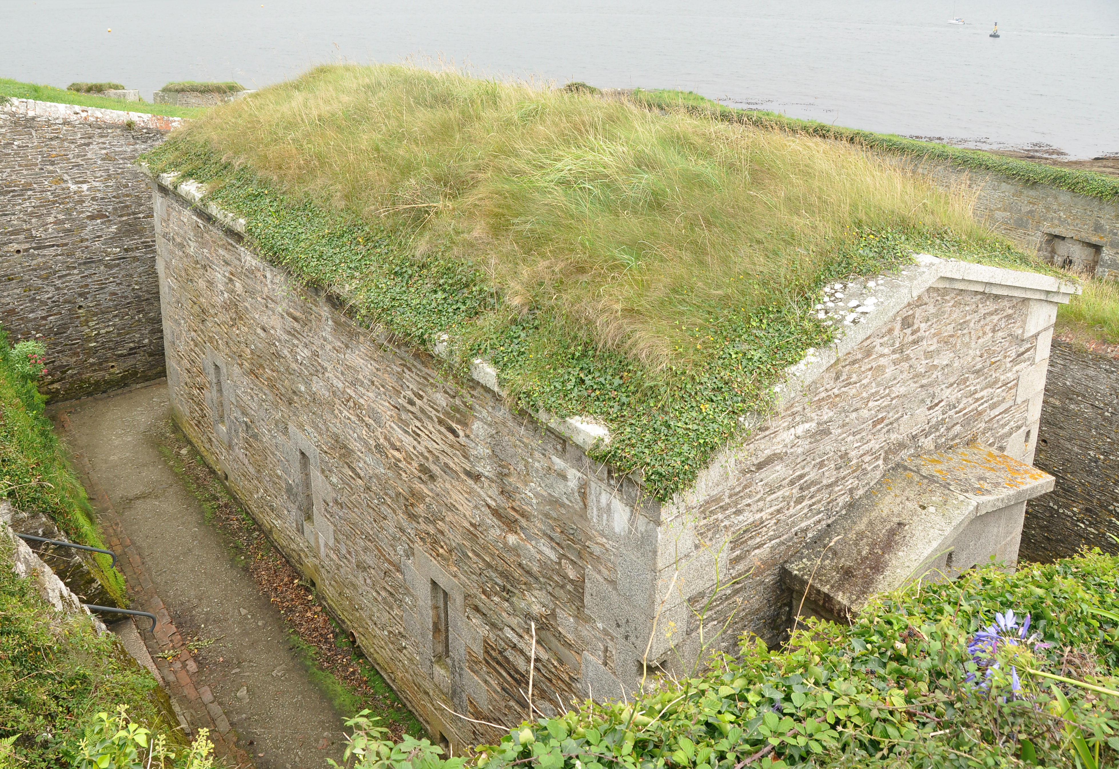 The Napoleonic magazine at St Mawes Castle, Cornwall, below the tudor castle.